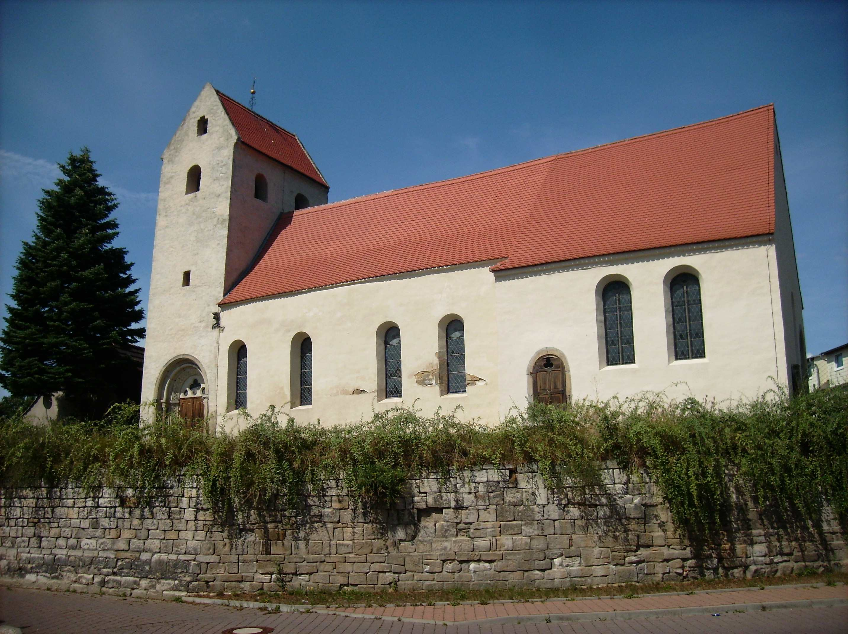 Church of the village of Webau (Hohenmölsen, district of Burgenlandkreis, Saxony-Anhalt)